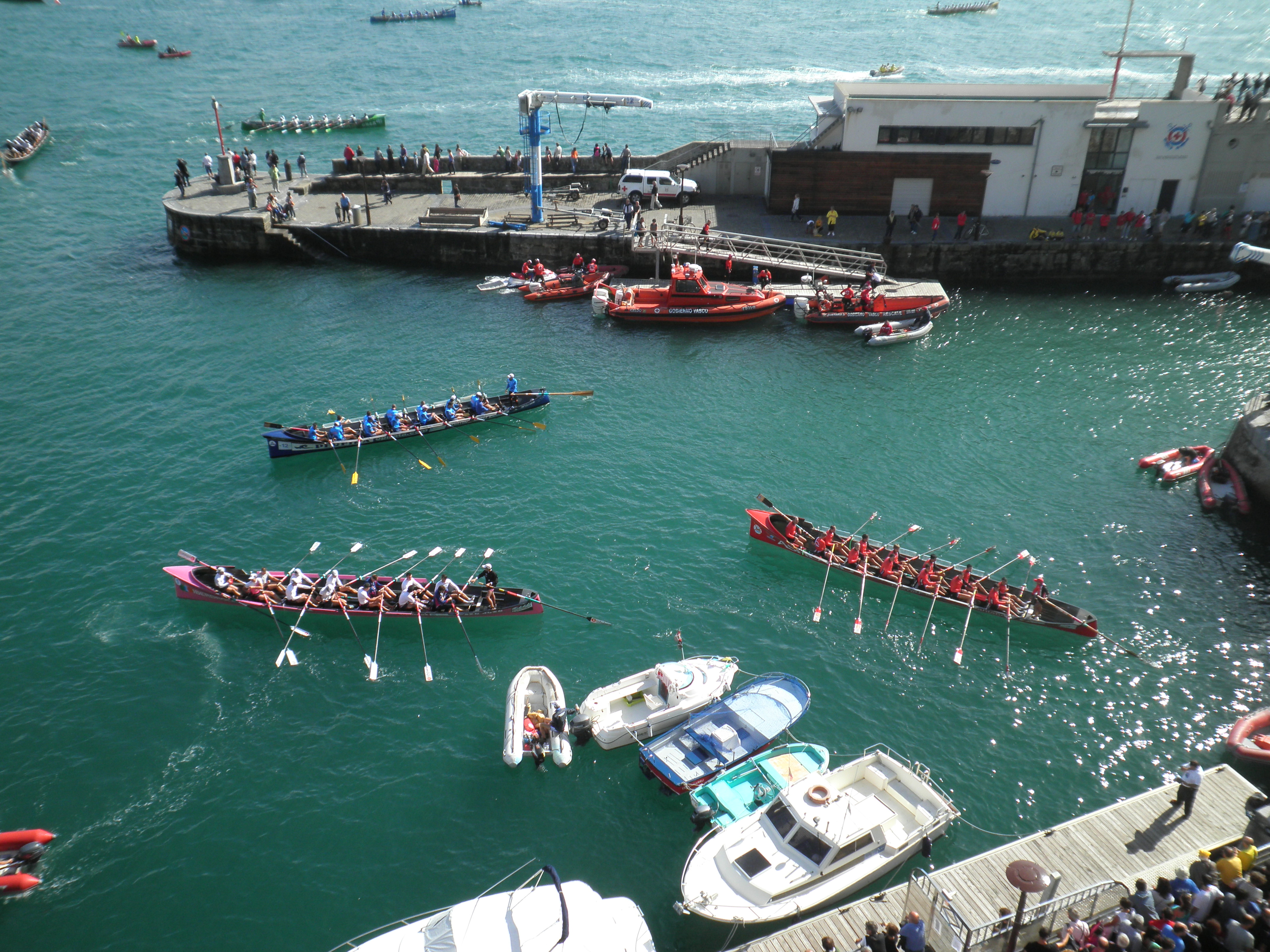 Flag of La Concha, 2012.